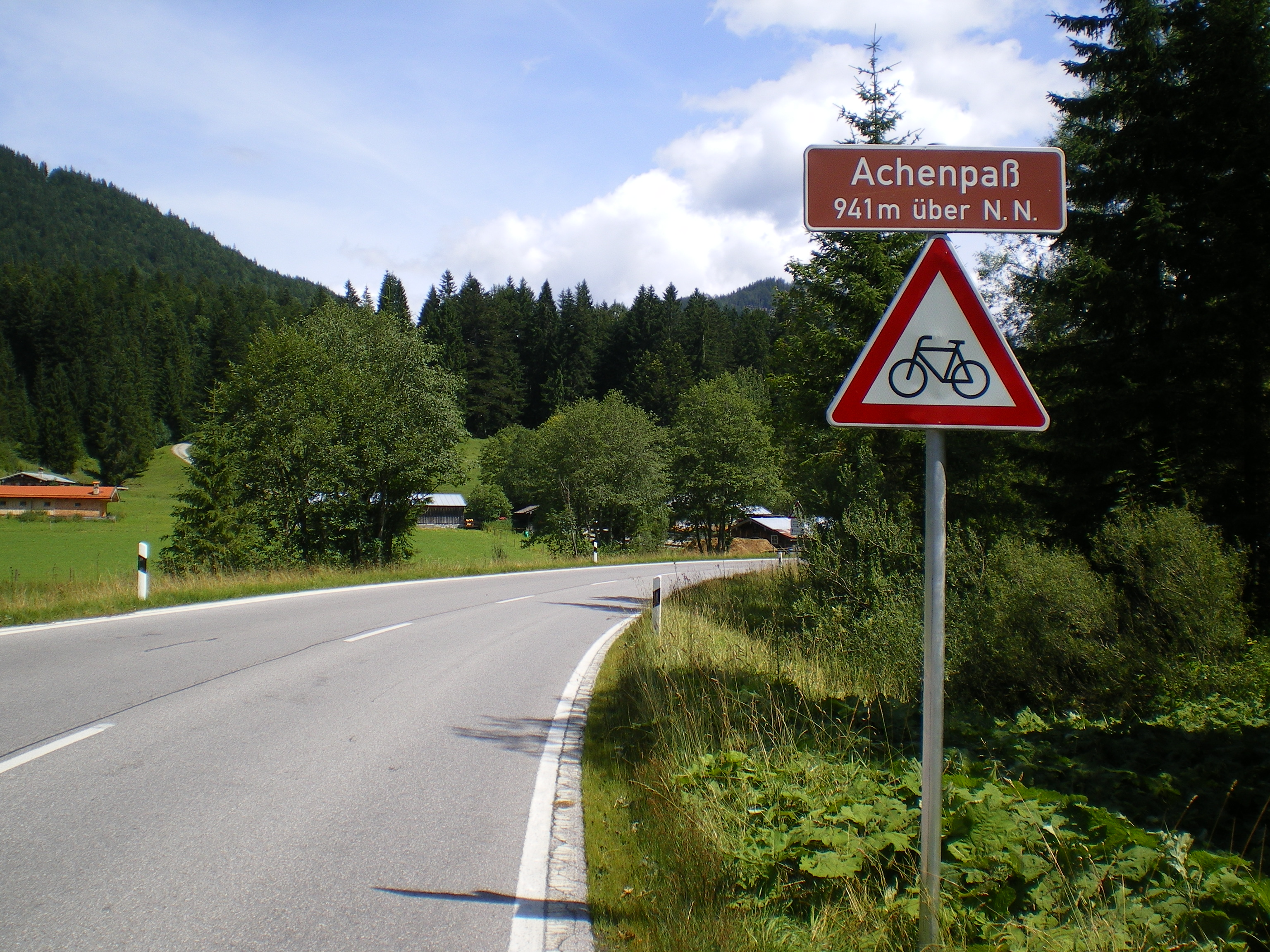 Achenpass summit